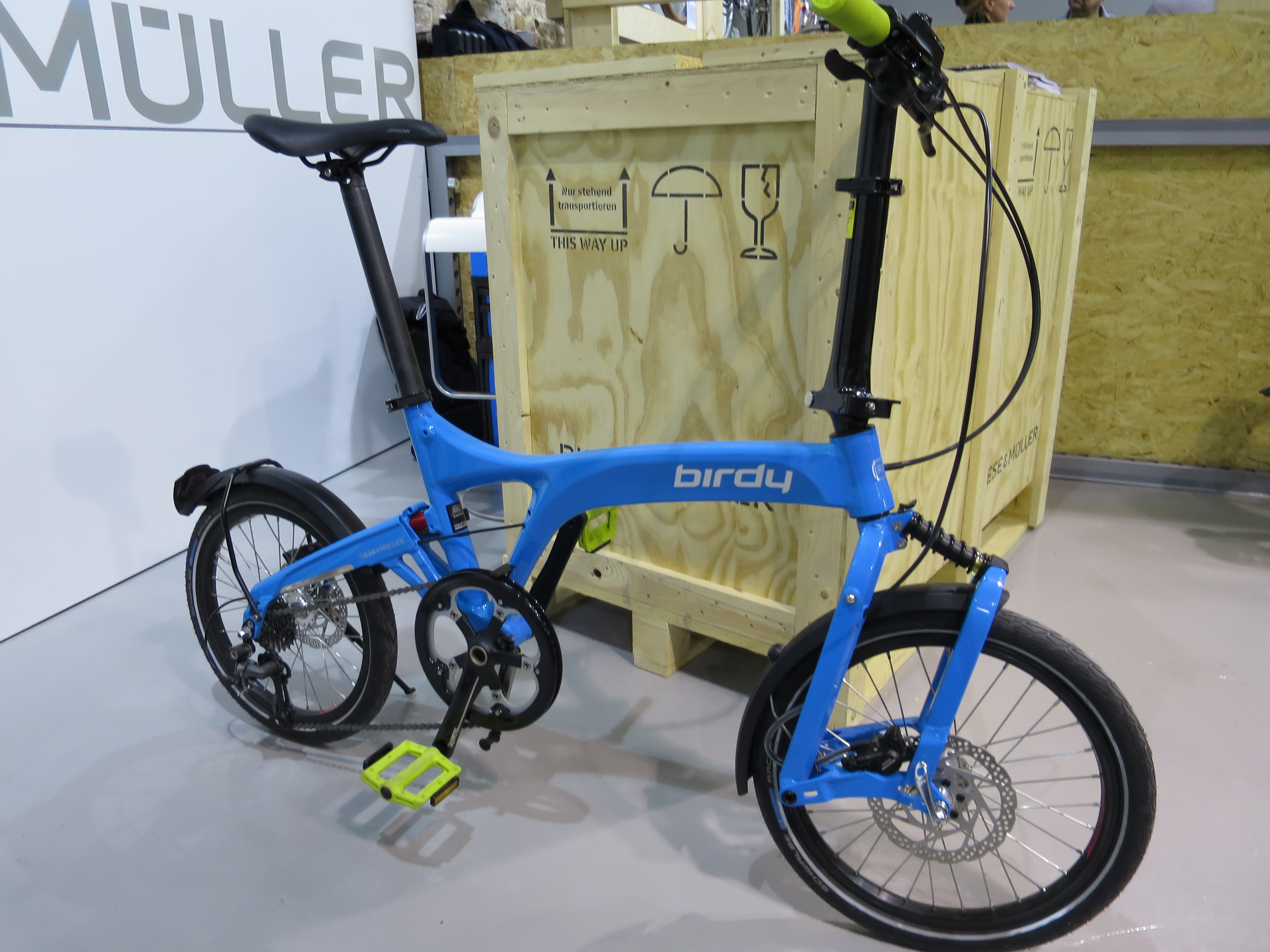 Birdy folding bike Berliner Fahrradschau 2017.